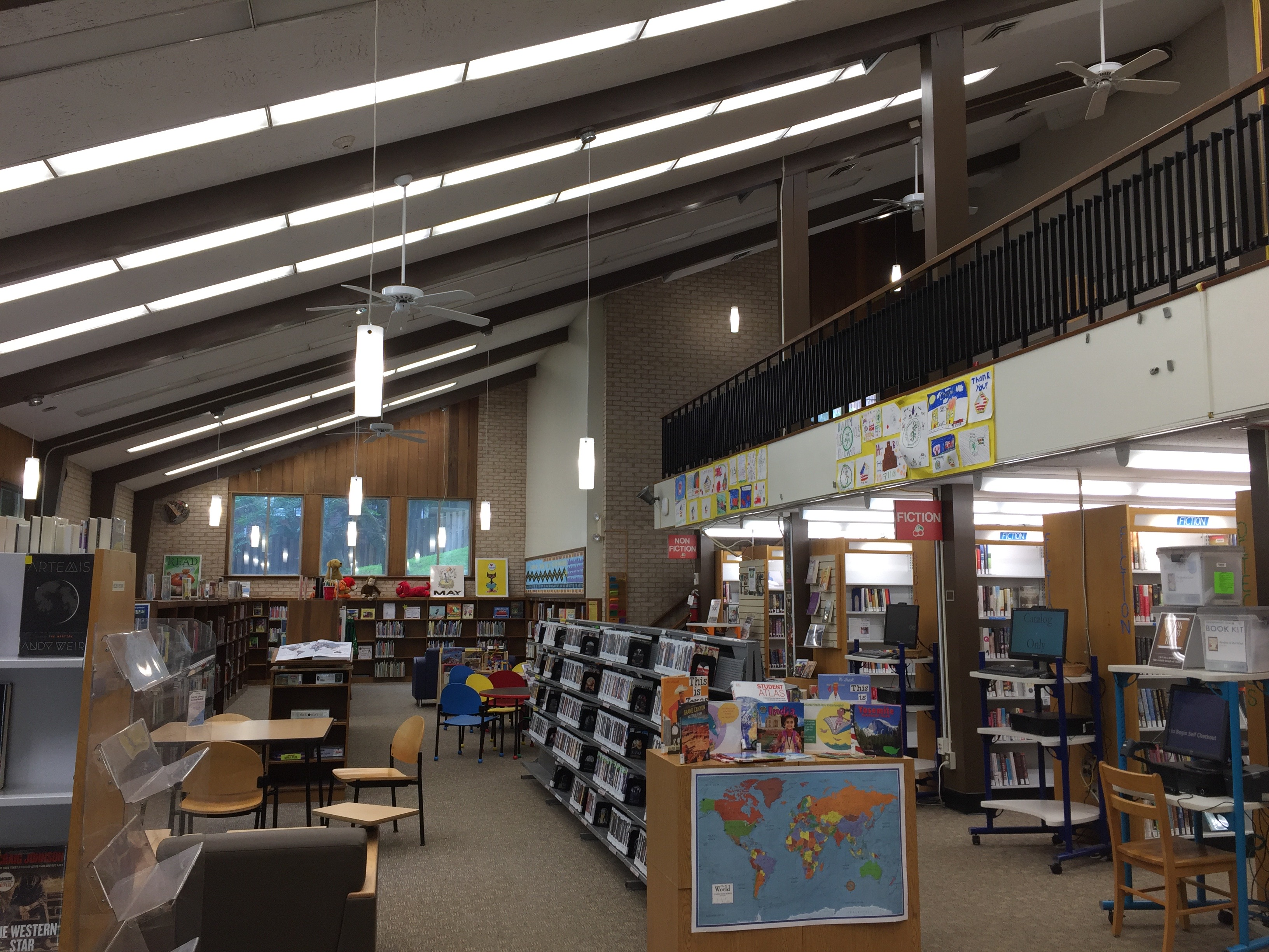 Interior of the Cherrydale Branch Library in Arlington, Virginia in 2018